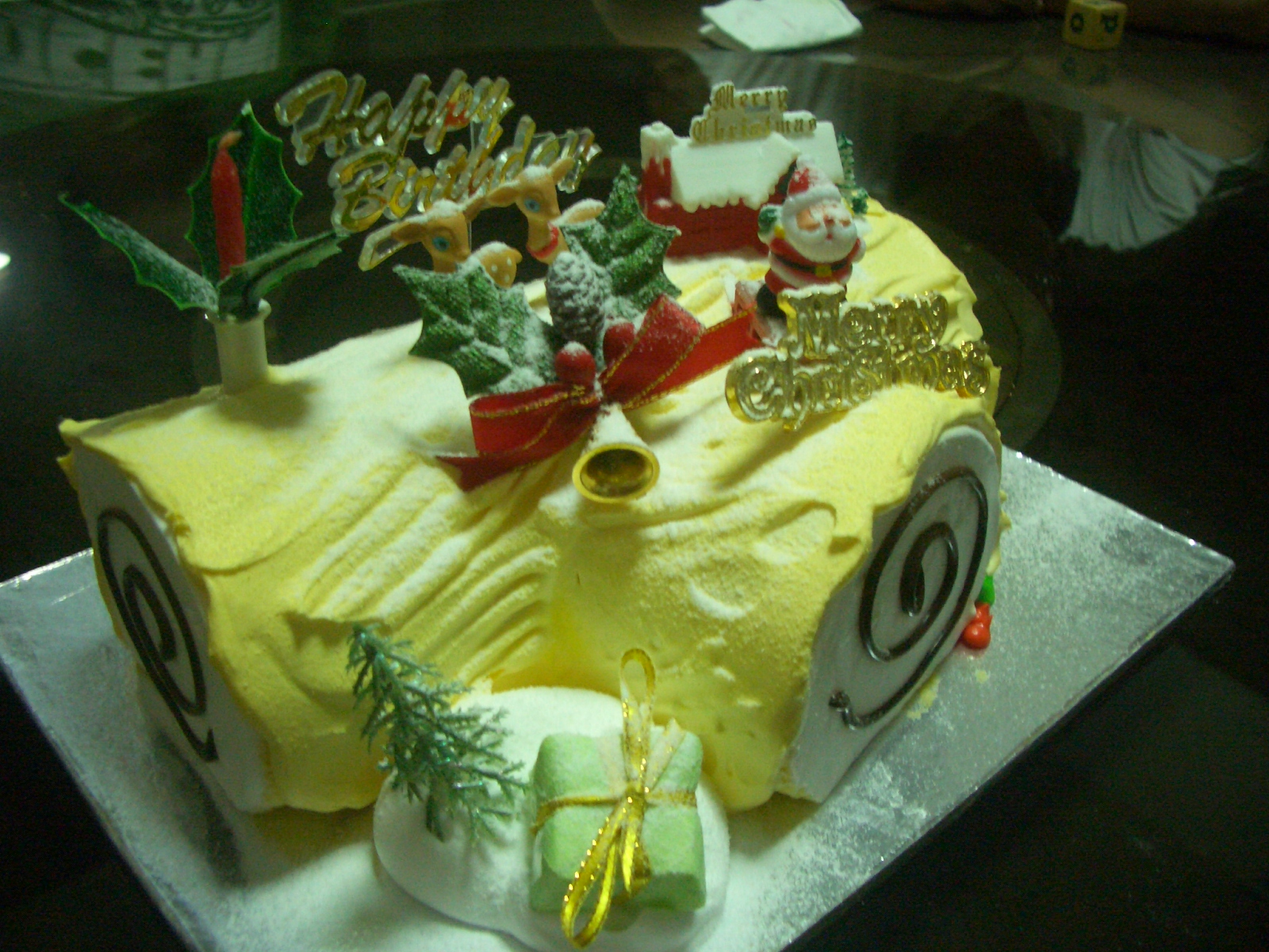 Durian-flavoured Yule log, photographed in Singapore.